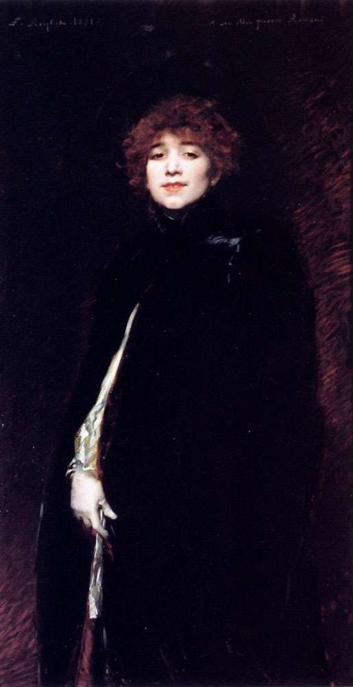 Portrait of Juana Romani